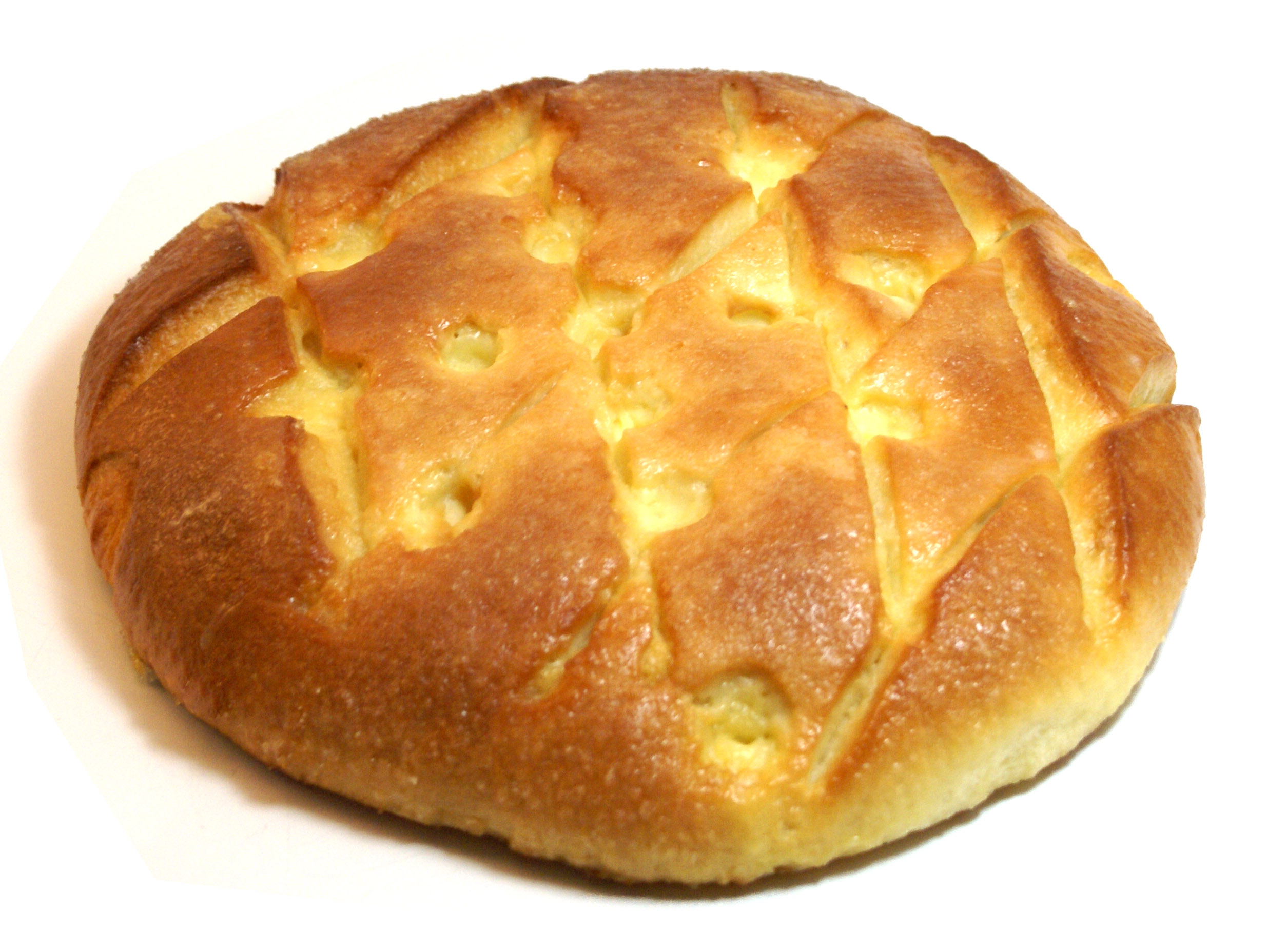 Gâteau du Vully (Cake of Vully), a specialty of Vully, Switzerland.